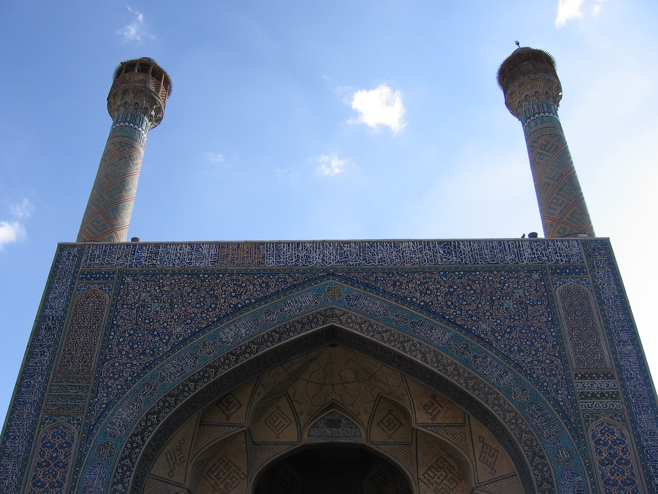 South Sector of Jame' Mosque, Esfahan, Iran Photo by : Shervin Afshar